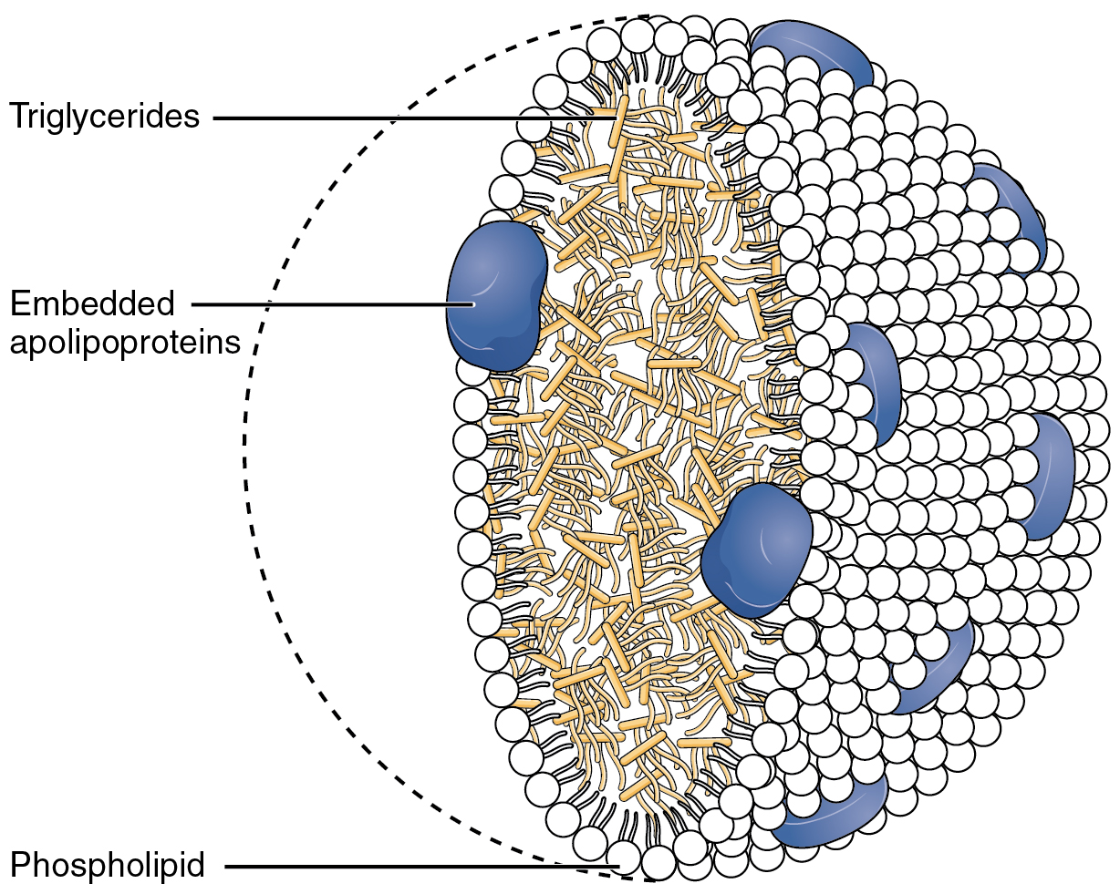 Illustration from Anatomy & Physiology, Connexions Web site. Jun 19, 2013.